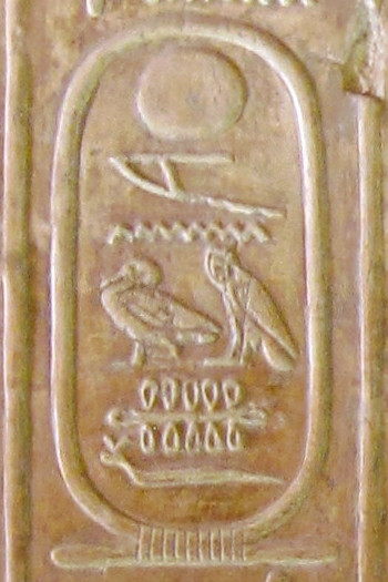 Cartouche 39, Abydos King List. Temple of Seti I, Abydos, Egypt